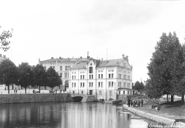 The old mill in Örebro Sweden 1903